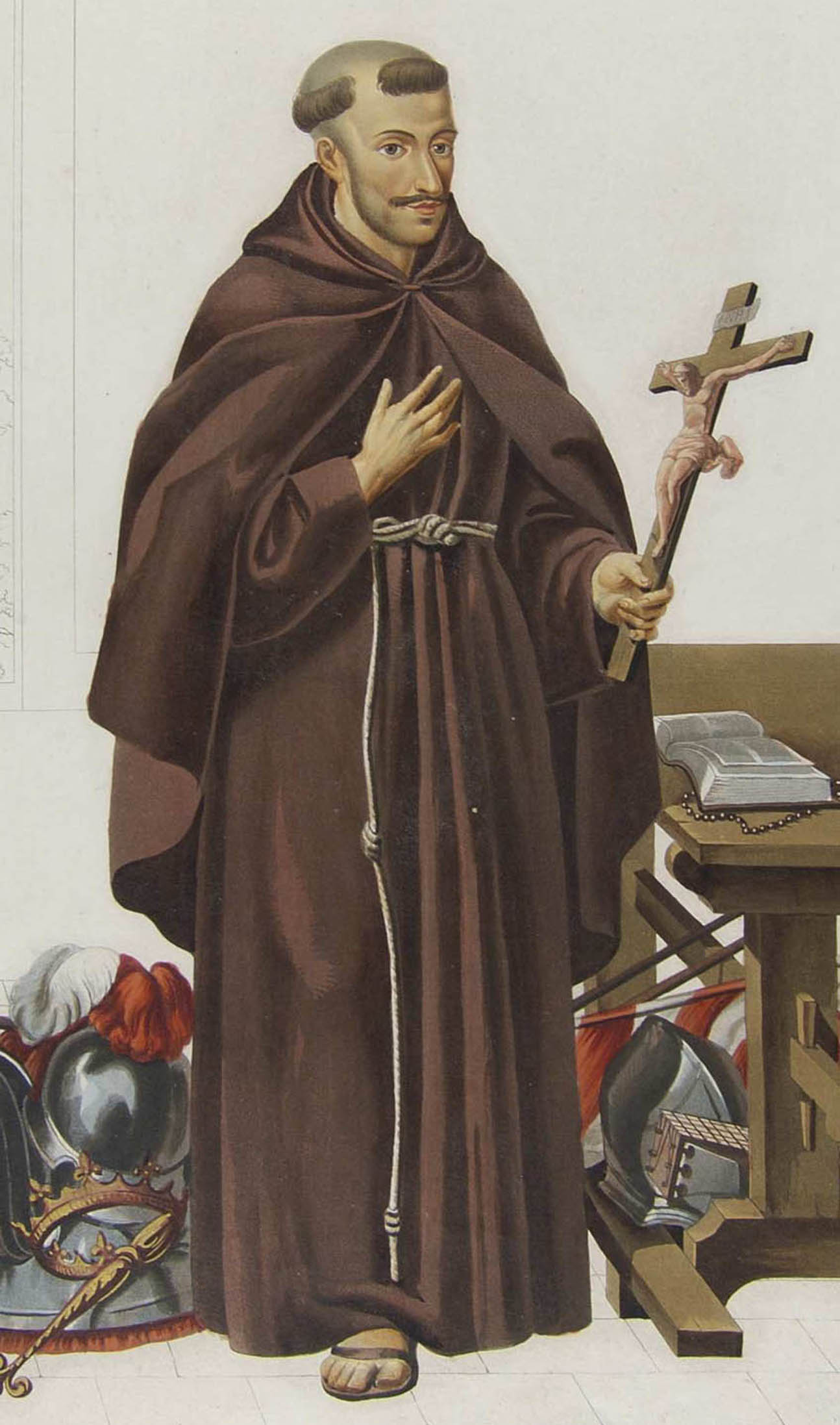 Alfonso III d'Este in monk habit